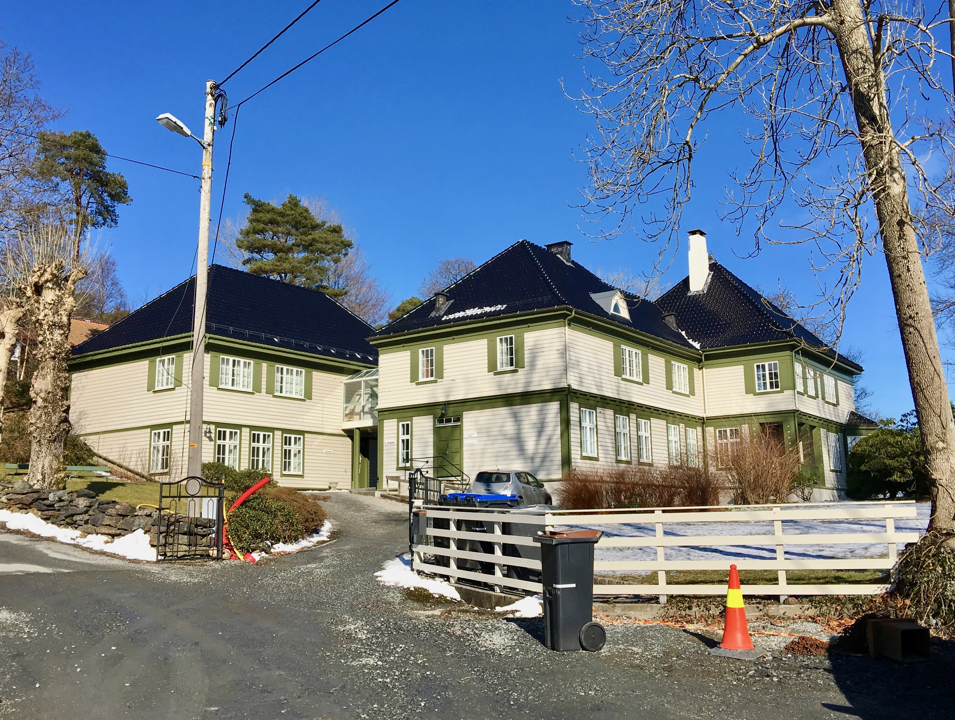 Sunnhordland Tingrett (district court) in Vidsteensvegen in Leirvik town on Stord Island, Norway. Photo 2018-03-13.